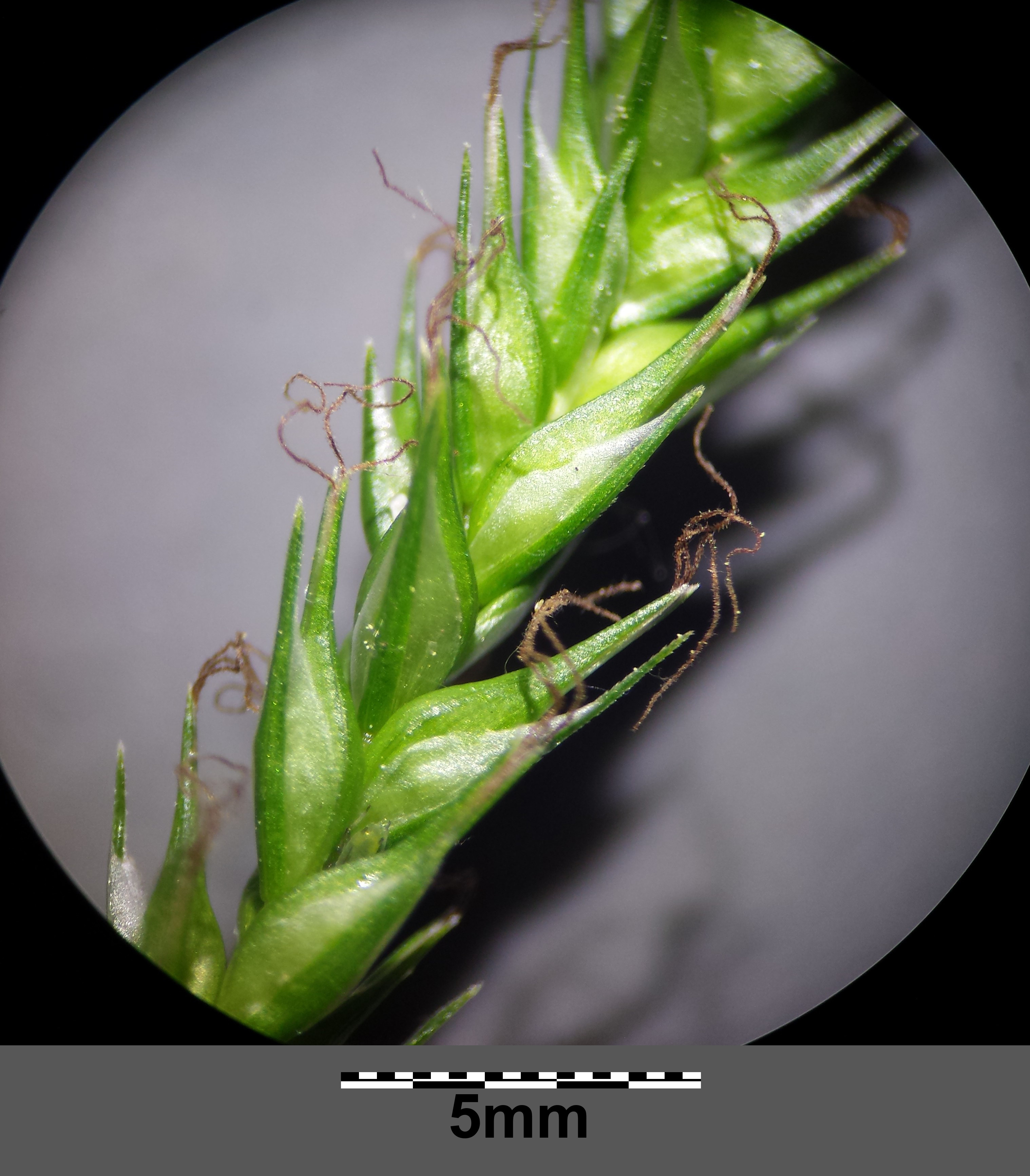 ♀ spike Taxonym: Carex sylvatica ss Fischer et al. EfÖLS 2008 ISBN 978-3-85474-187-9 Location: Michelberg, district Korneuburg, Lower Austria - ca. 330 m a.s.l. Habitat: Carpinion betuli